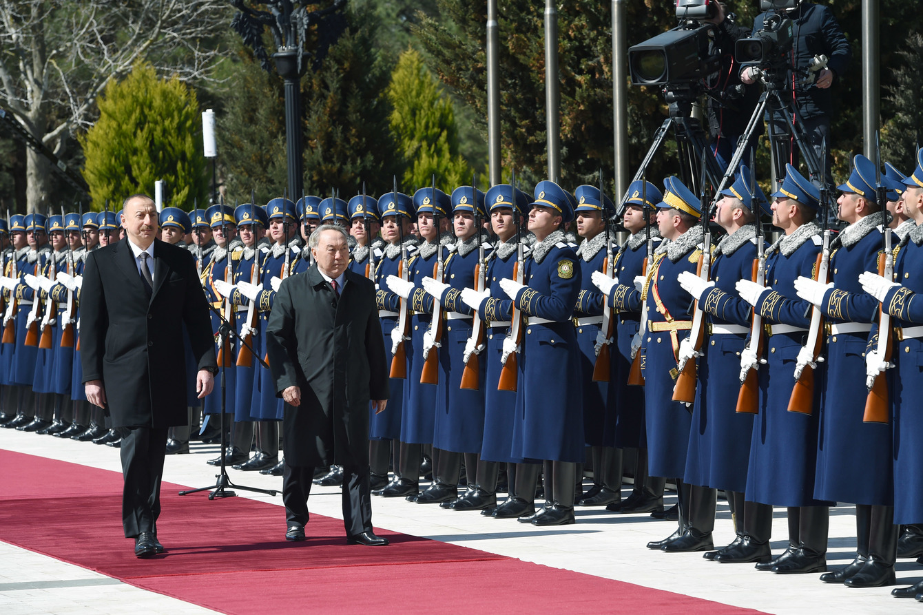 Official welcome ceremony was held for Kazakh President Nursultan Nazarbayev (Azerbaijan-Kazakhstan relations)